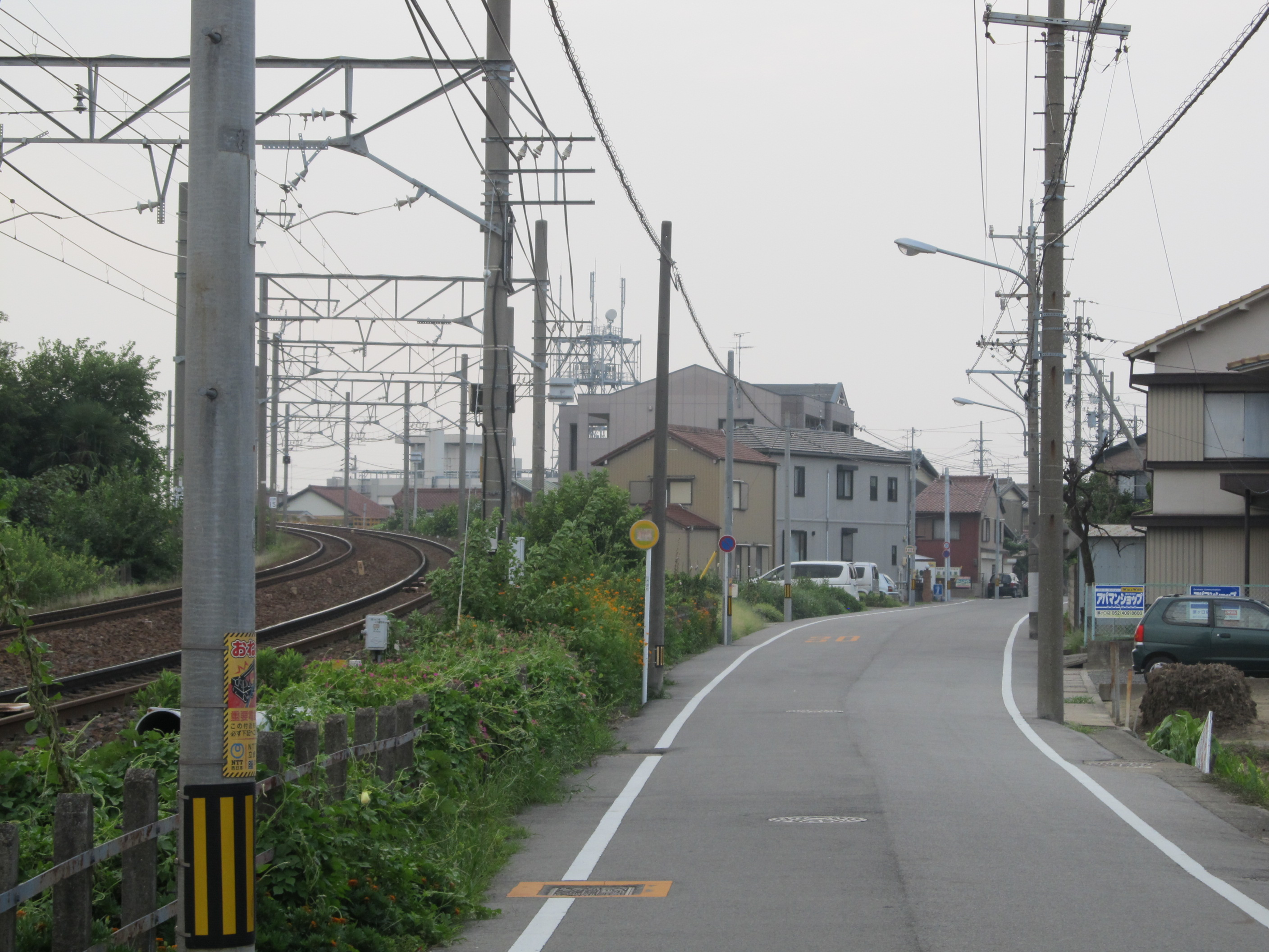 Nagoya Railroad Kiyosu Line trace. The right road is Kiyosu Line (abandoned line).The left track is Nagoya Main Line (existence).